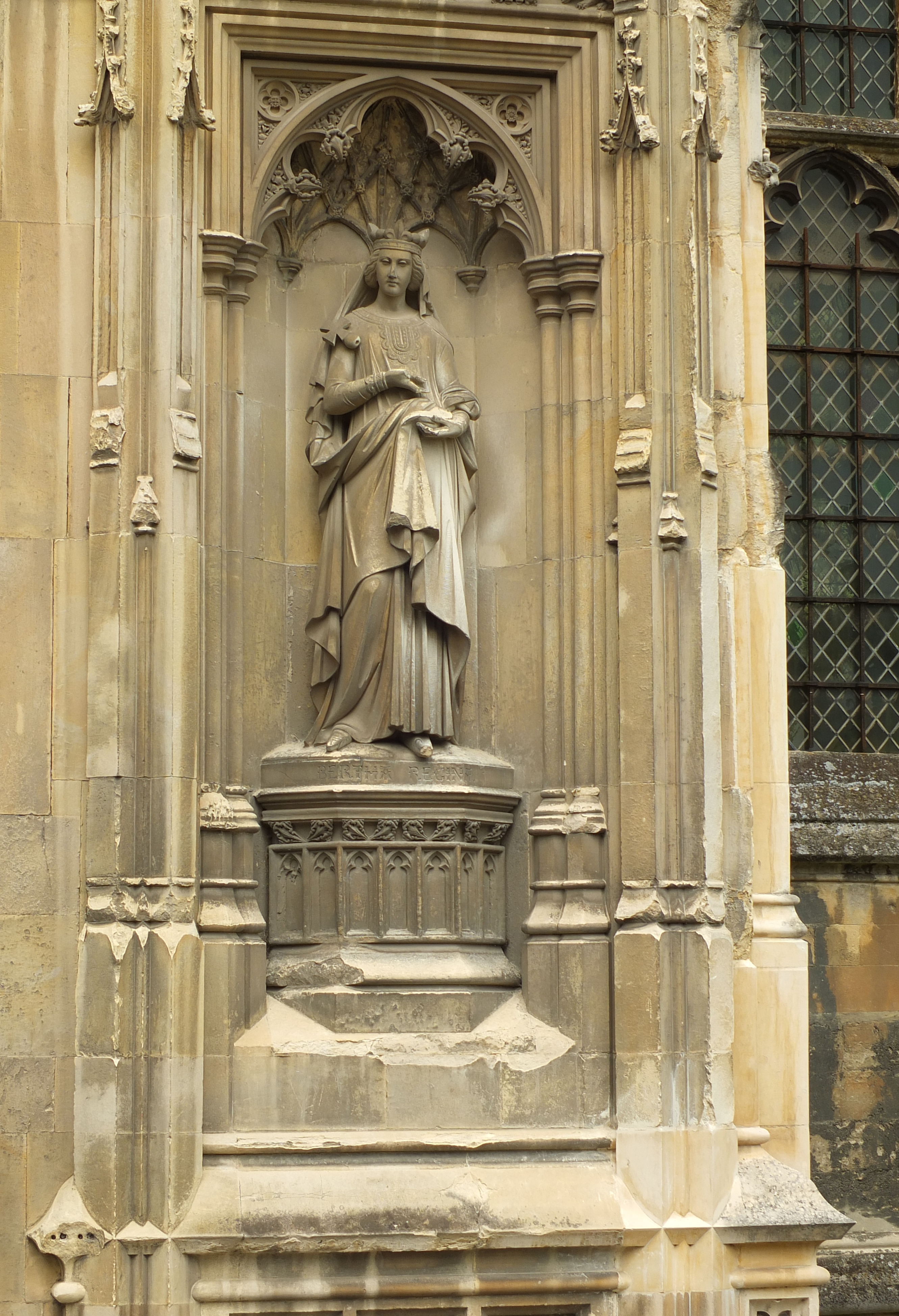 Statue of Queen Bertha of Kent at the south west porch of Canterbury Cathedral. St. Bertha or St. Aldeberge (b. c. 565 - in or after 601) was queen of Kent, her influence led to the Christianization of Anglo-Saxon England.